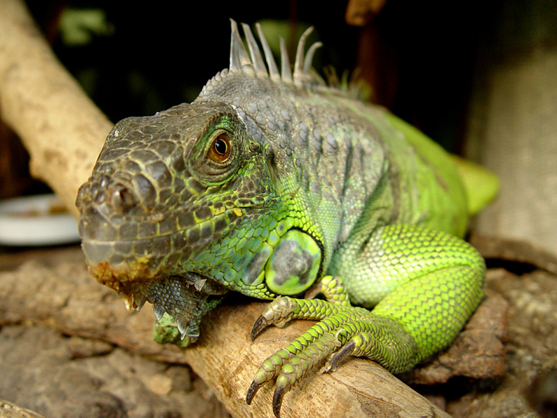 Green Iguana.